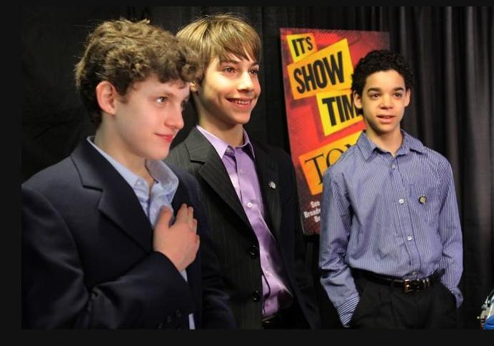 Billy Elliot Broadway Boys. Trent Kowalik, Kiril Kulish, David Álvarez